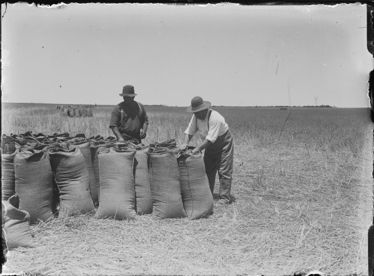 Photographic Negative - Glass: Wubin - checking grain after harvest. Left Bill Klein (nephew of ) at right Wilhelm Gustav Liebe, 1922. Published in the Western Mail 26 January 1922, p.19 with caption: Reaping the harvest : sewing up bags of the golden grain.